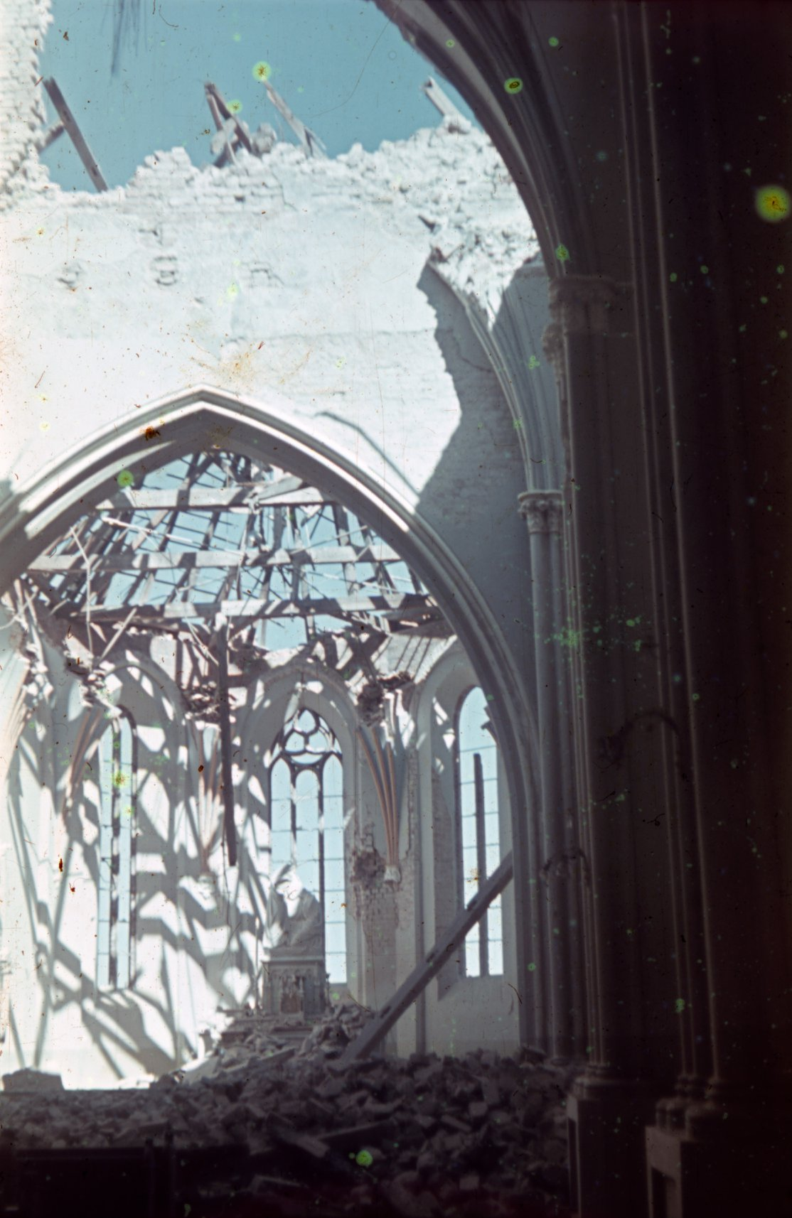 The Church of the Visitation of the Most Blessed Virgin Mary in Warsaw, Poland. Warsaw Uprising 1944. This Agfacolor photo was not colorized.